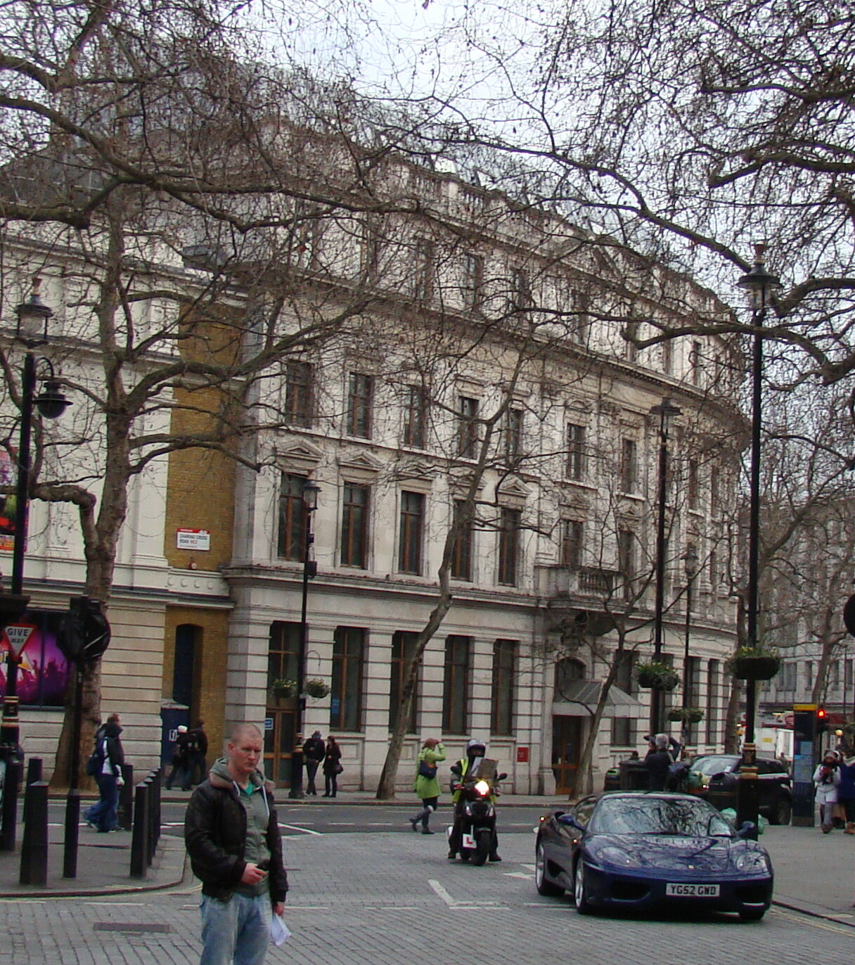 View towards Charing Cross Road from Irving Street